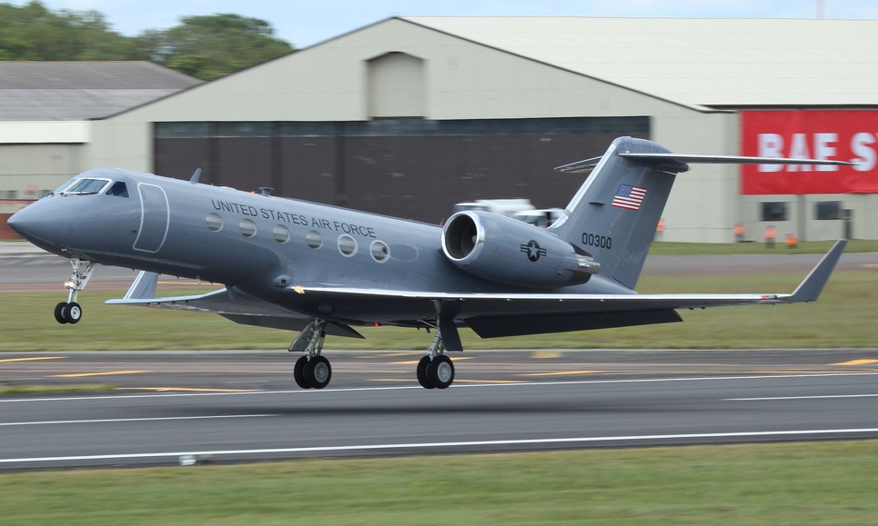 American C-20H seen here in Fairford, UK, in 2011.